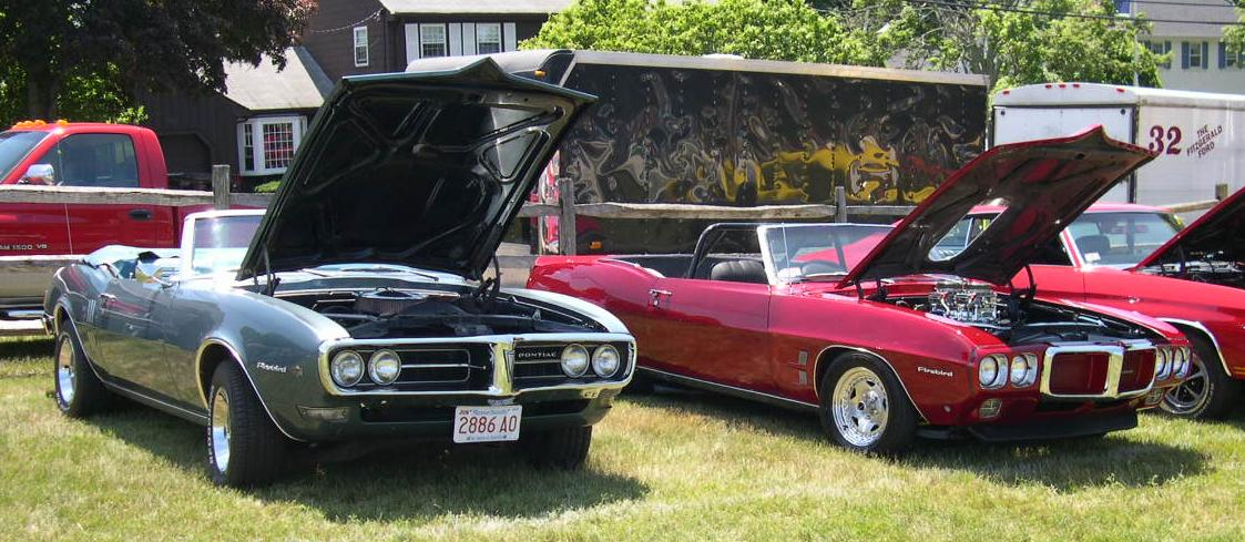 1968 and 1969 Pontiac Firebird Source: Photographed at the Bay State Antique Automobile Club's July 10, 2005 show at the Endicott Estate in Dedham, MA by User:Sfoskett